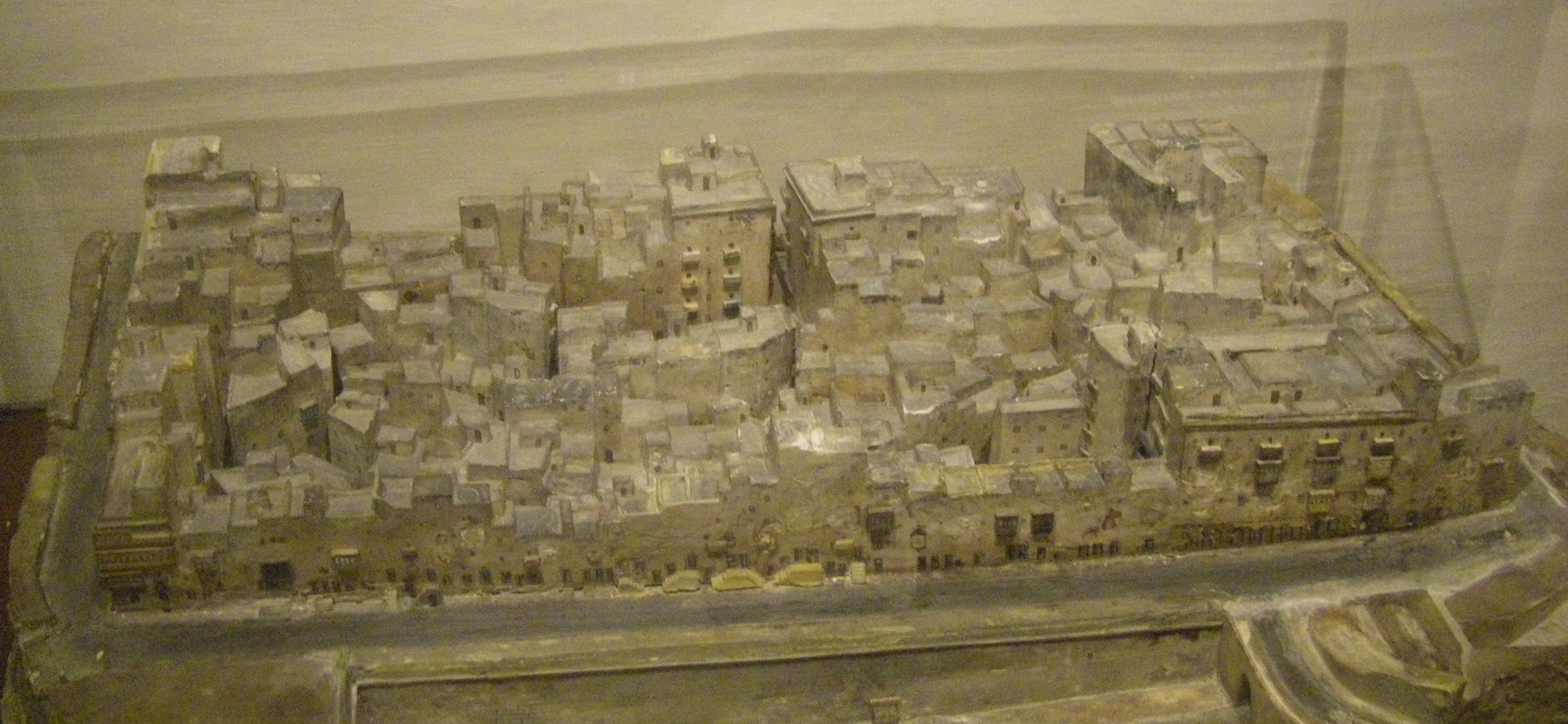 Model of the former old district called Manderaggio which lies on the Northern side of Valletta on the Marsamxett Harbour. Evelyn Waugh called this place - which was destroyed by the Maltese Government in the 1950s - in his 1930 book "Labels" as "the most concentrated and intense slum in the world".